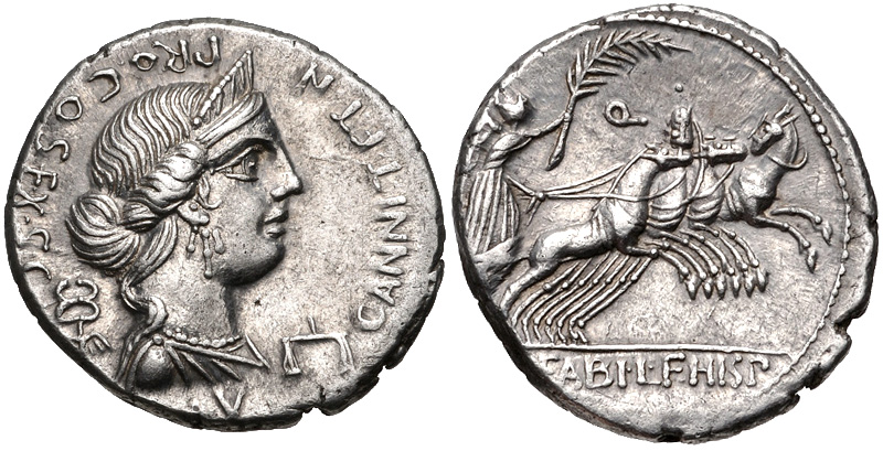 C. Annius T.f. T.n & L. Fabius L.f. Hispaniensis. 82 - 81 BC. Silver Denarius; Av: Anna Perenna, wearing stephane; winged caduceus to left, scales to right, Rv: Victory driving galloping quadriga right, holding palm frond and reins; Crawford 366/1b